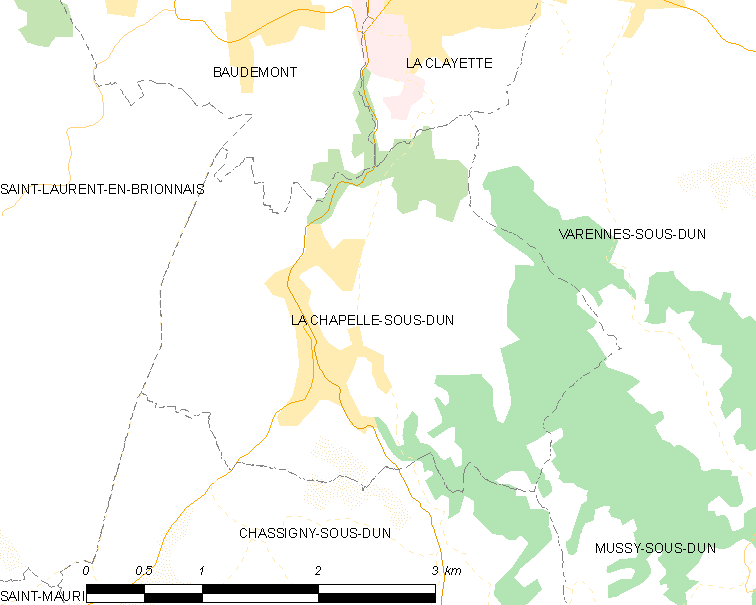 Map of French municipality